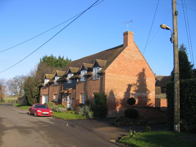 Wasperton Cottages. A row of cottages in the NE end of the village adjacent to Wasperton House. Pity about the telephone cable!